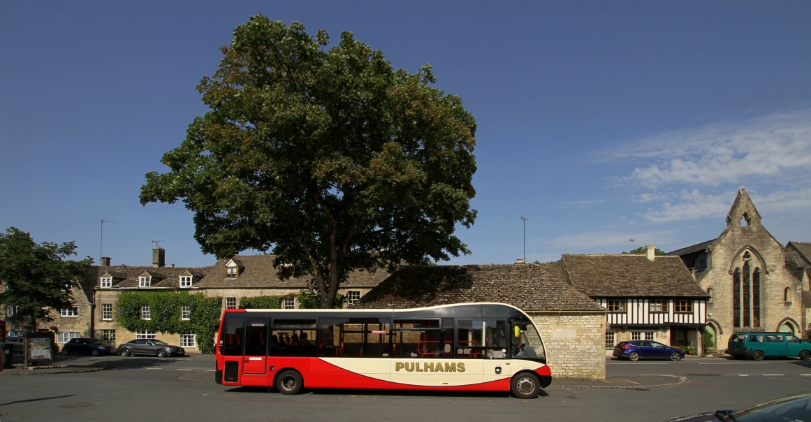 A Pulham's bus on route 855 in Market Place, Northleach, Gloucestershire. The bus in an Optare Solo SR, registration mark DP12 BUS.